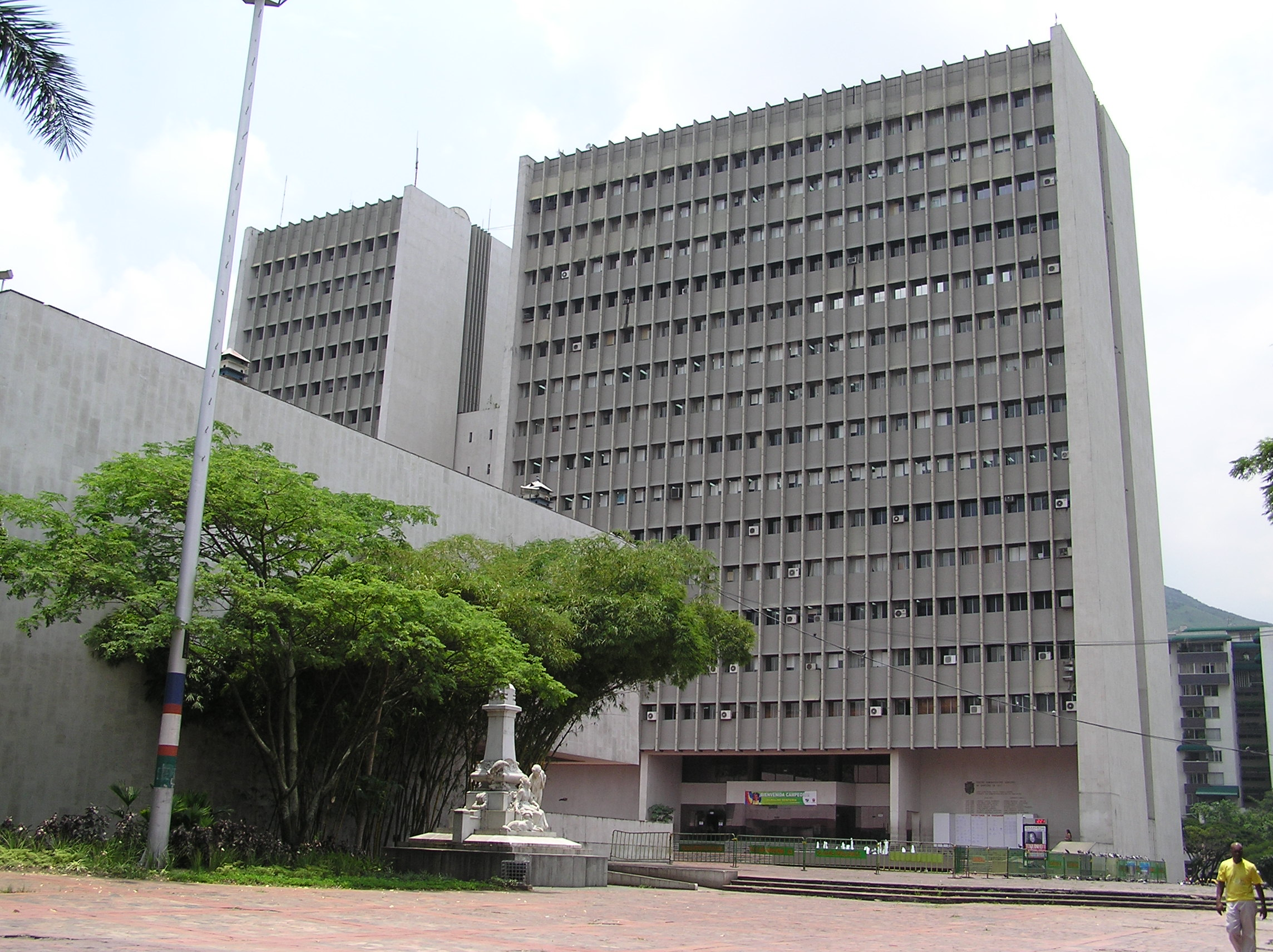 Edificio CAM: CAM y EMCALI, Cali, Colombia